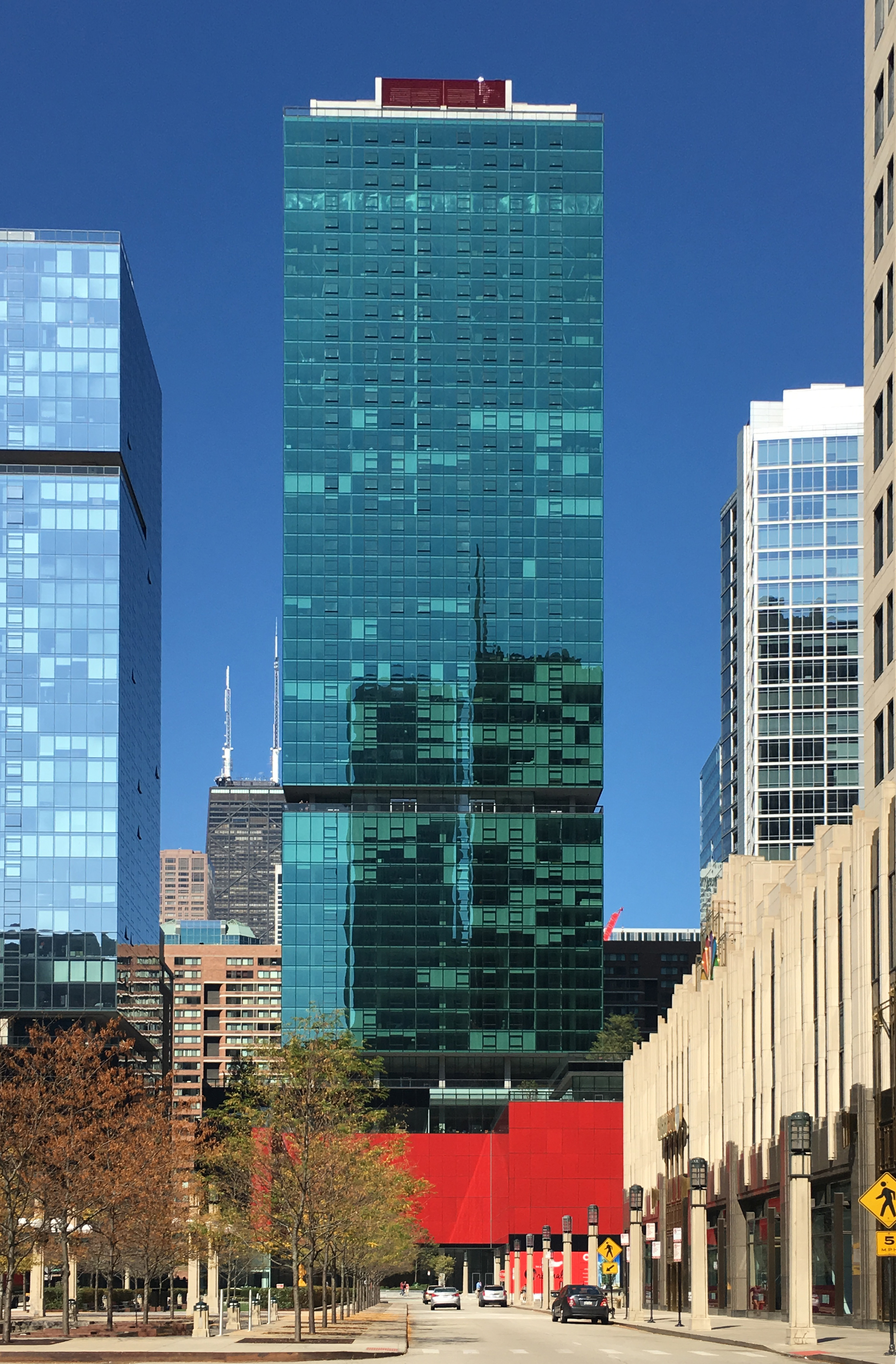 Optima Signature